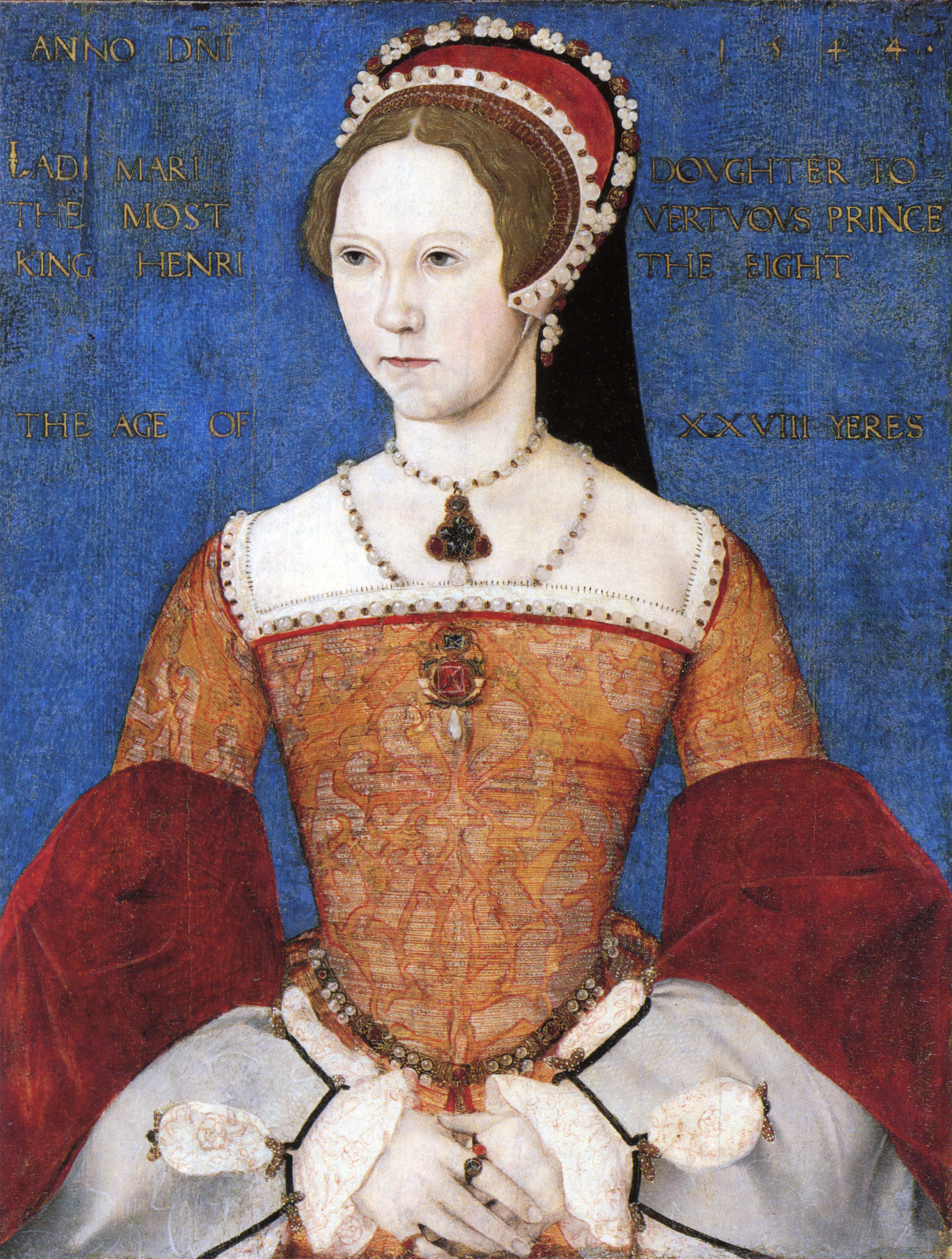 This image is a JPEG version of the original PNG image at File: Mary I by Master John.png. Generally, this JPEG version should be used when displaying the file from Commons, in order to reduce the file size of thumbnail images. However, any edits to the image should be based on the original PNG version in order to prevent generation loss, and both versions should be updated. Do not make edits based on this version. See here for more information.